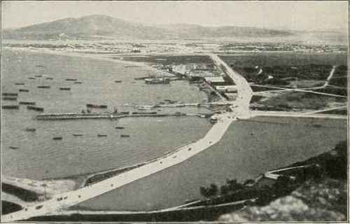 The Neutral Ground between Gibraltar and Spain in the late 19th century, from "Gibraltar - John L. Stoddard's Lectures" (1901), by John L. Stoddard